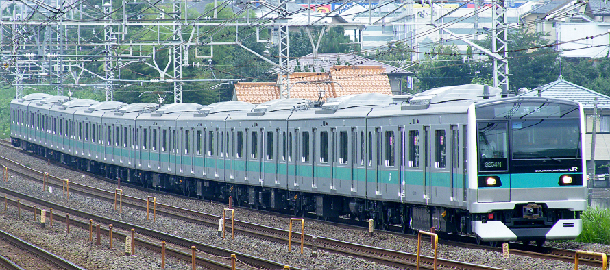 JR East E233-2000 series EMU undergoing test running on the Joban Line